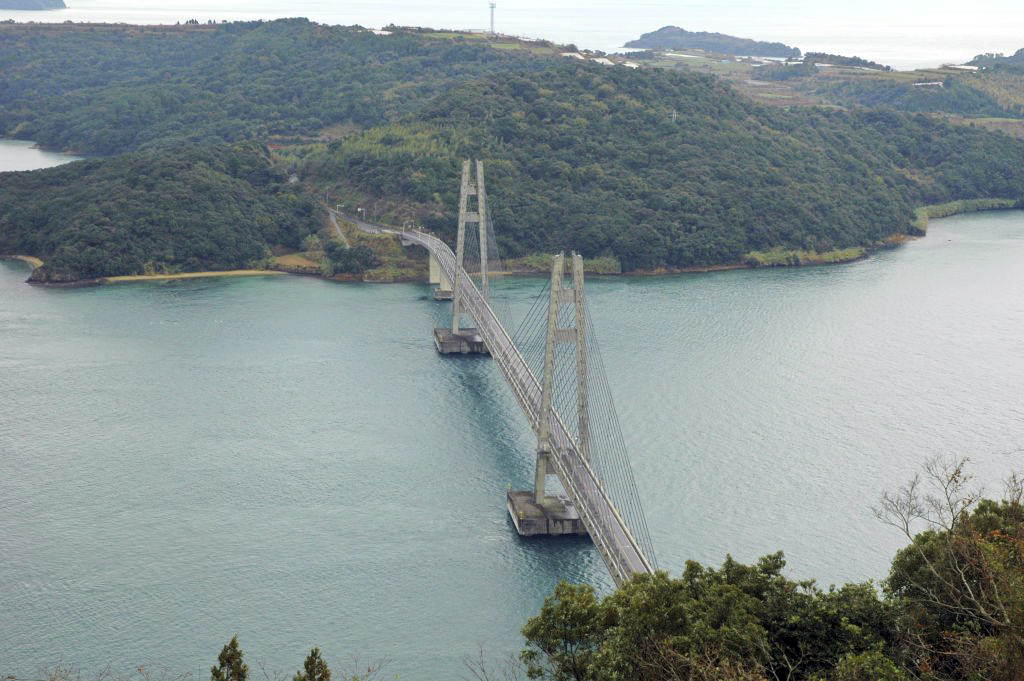 Ikara Bridge and Ikara-jima, seen from Nagashima within Nagashima, Kagoshima, looking east. See the map. Nikon D70 + AF-S DX 18-70mm f/3.5-4.5G IF-ED